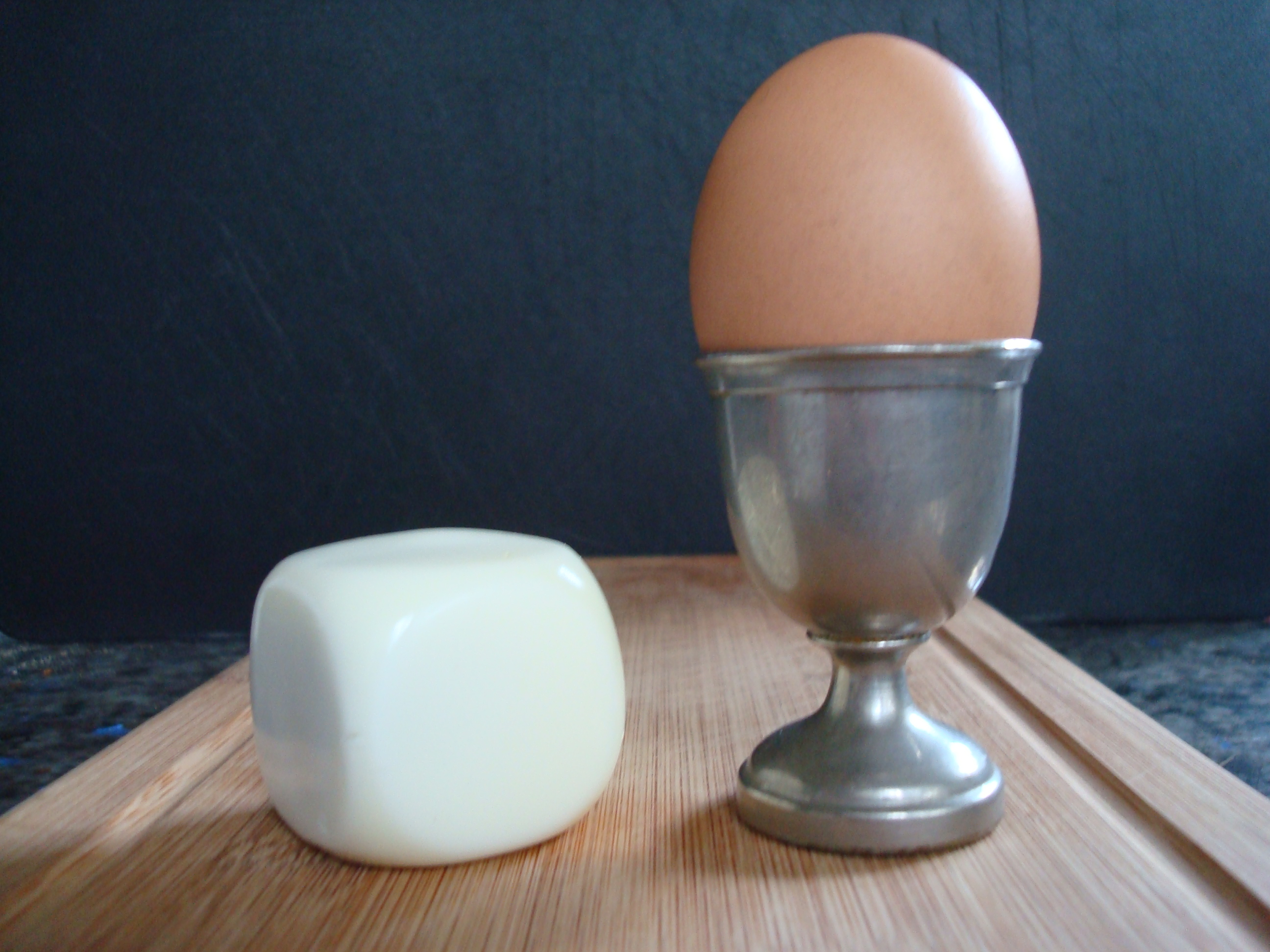 Cubic egg